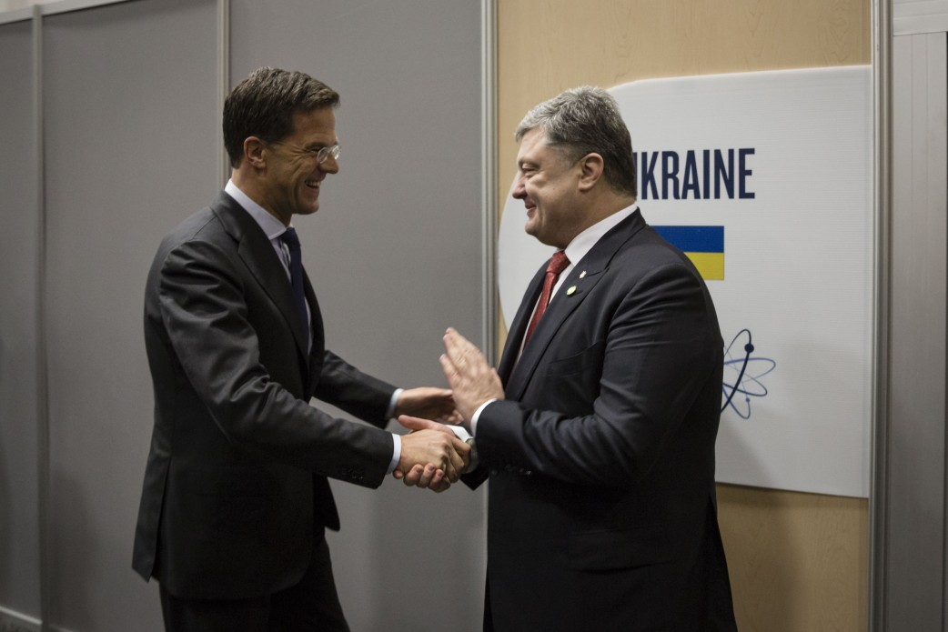 Working visit to the United States